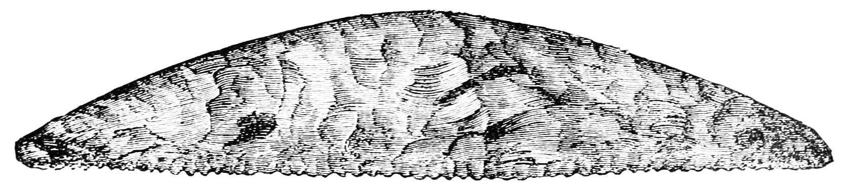 Lunate flint saw (Neolithic flint sickle).